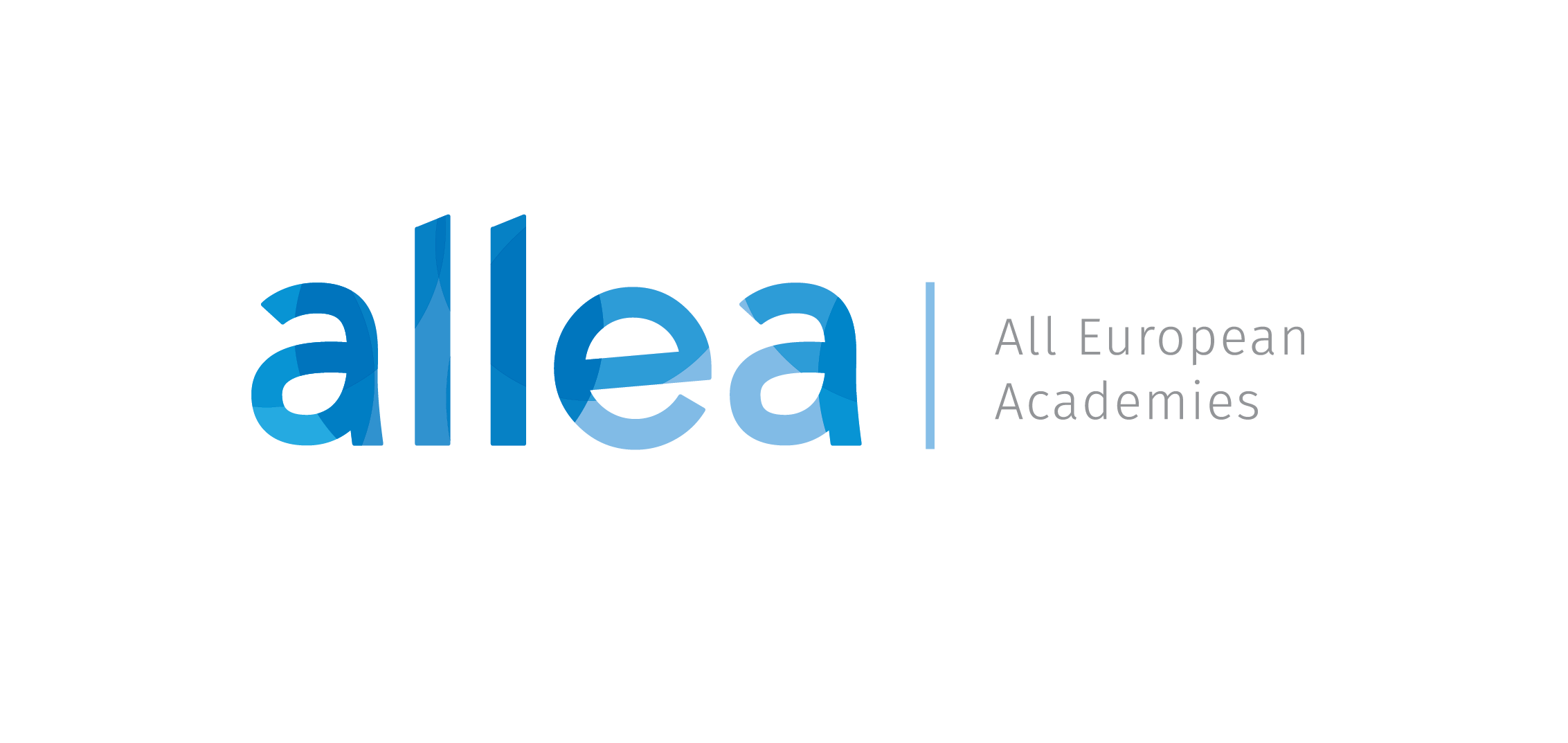 Official logo of ALLEA, the European Federation of Academies of Sciences and Humanities.